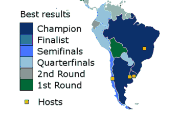 World cup south american countries best results and hosts